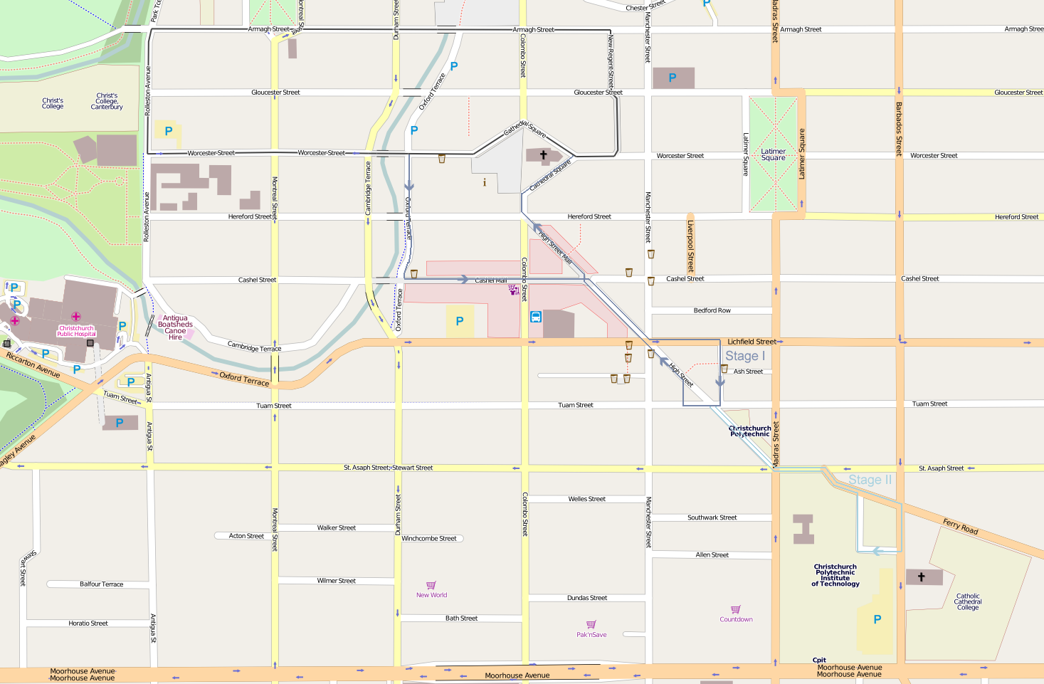 Central city heritage tramway circuit in Christchurch, New Zealand with initial plan for approved extensions.